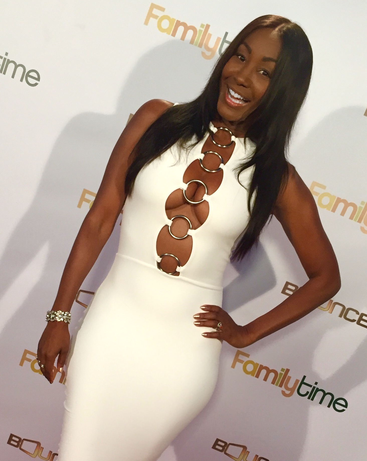 Tanjareen at the Family Time wrap party for season 5 at Harvest Studios